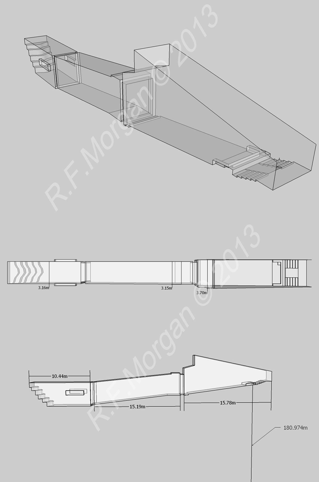 Isometric, plan and elevation images of KV18 taken from a 3d model